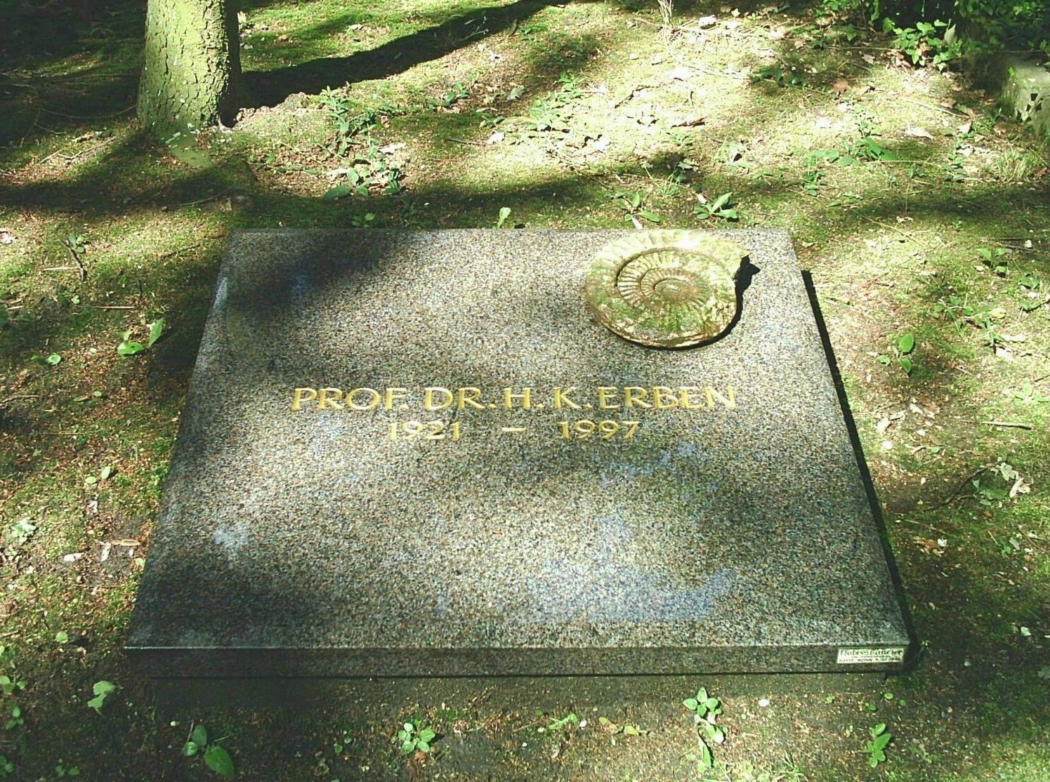 Grave of the German paleontologist Heinrich Karl Erben in Bonn